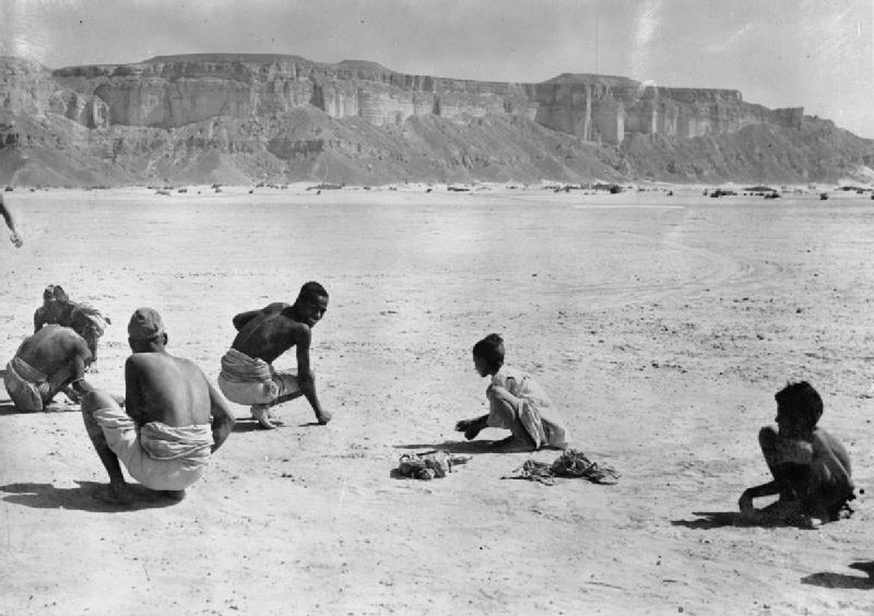 Royal Air Force in the Middle East, 1944-1945. Hadrami civilians picking up grain dropped during the unloading of food supplies from aircraft of the RAF Famine Relief Flight at El Qatn in the Hadhramaut region of the British Aden Protectorate. During 1943 and 1944, the Hadhramaut was hit badly by drought and a loss of foreign remittances, leading to starvation and the death of some 10,000 people in the region. In May 1944 the Famine Relief Flight, consisting of eight aircraft, was established at Riyan, moving to Khormaksar, Aden, the following month. The flight airlifted a daily total of 24 tons of grain into el Qatn, from where it was taken by RAF transport and camel train to soup kitchens set up in the towns.